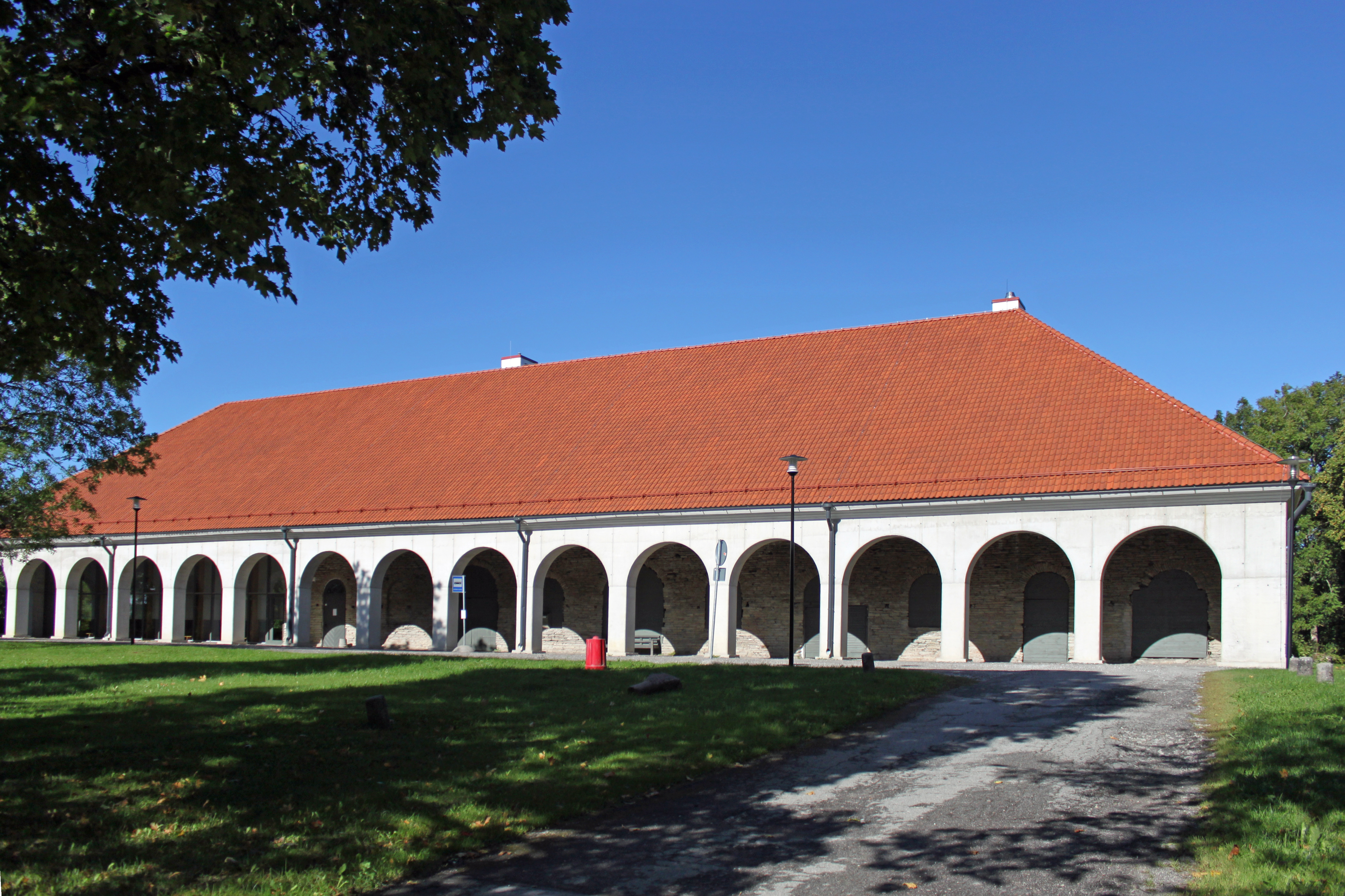 Vääna manor stable-coach house, 2018 year